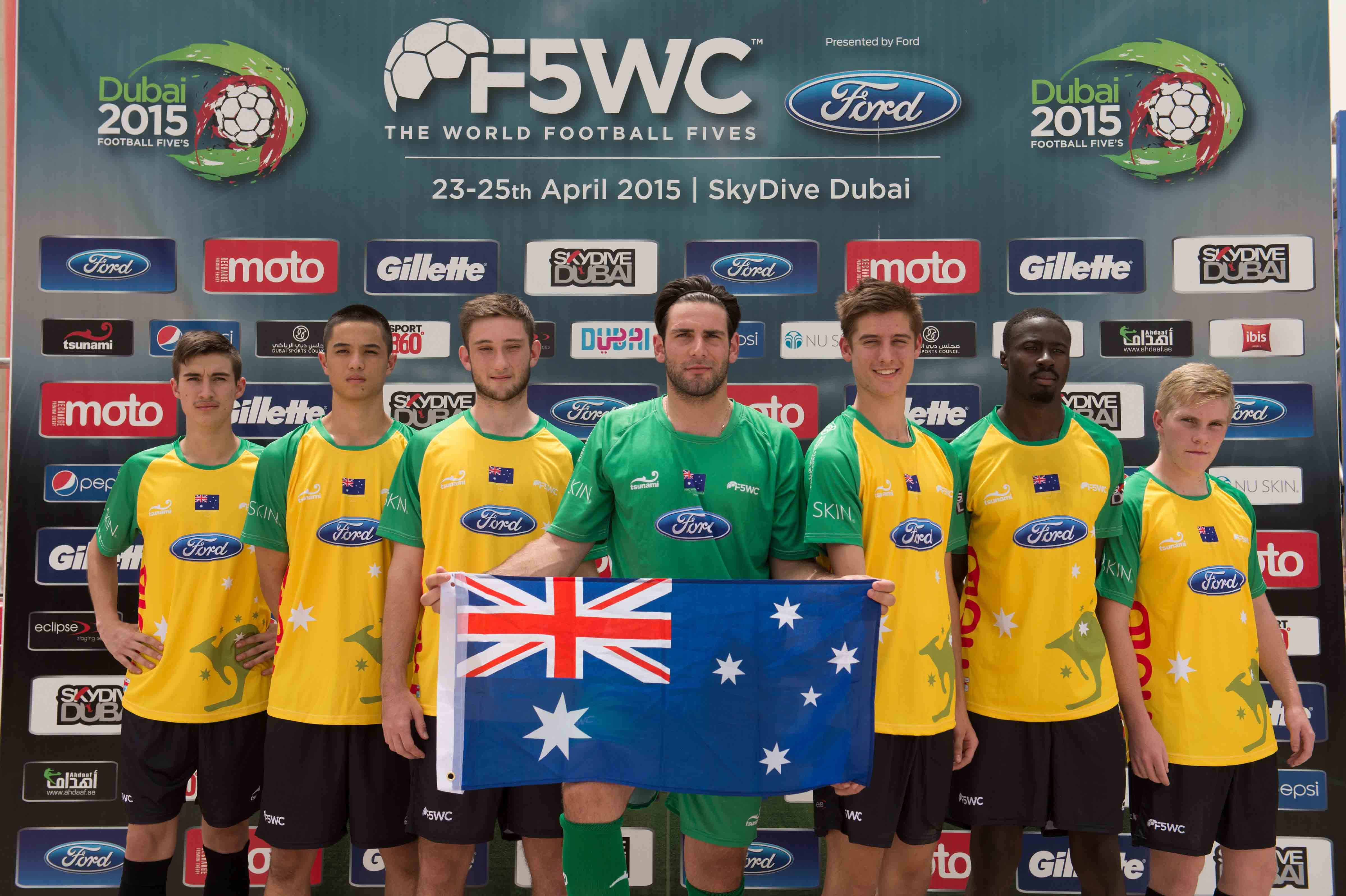 The winners of the Australian qualifiers representing their nation at the 2015 World Finals